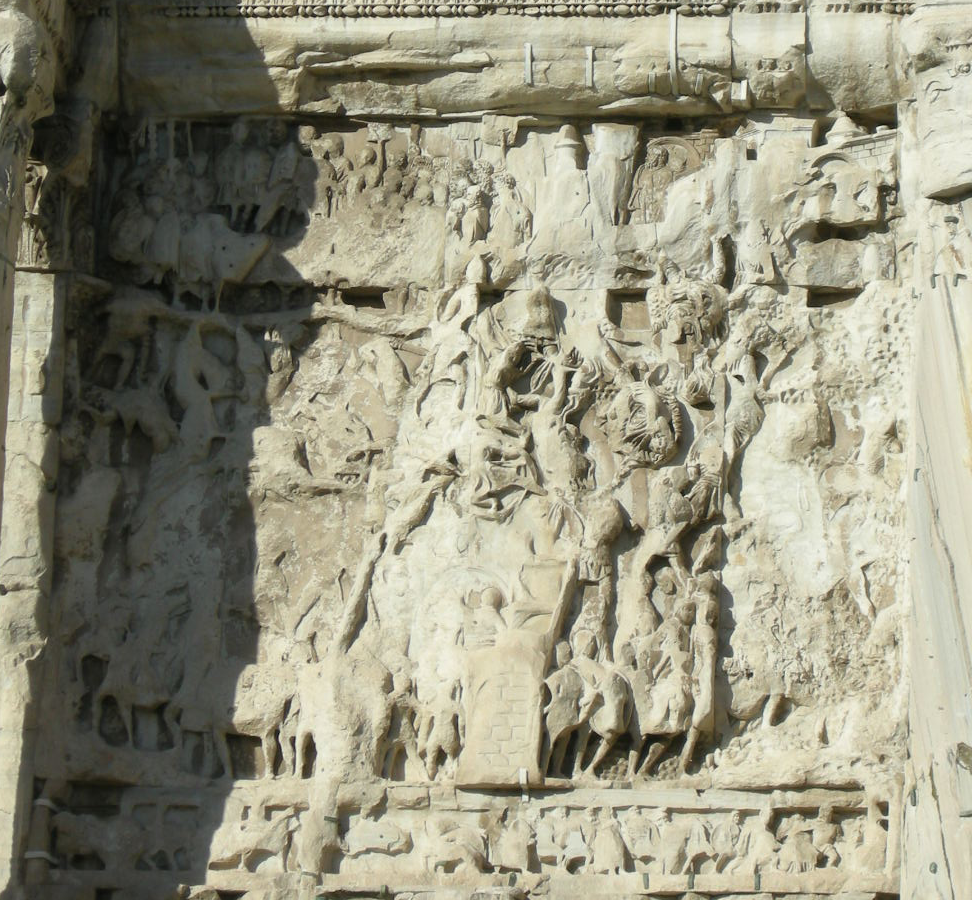 The battle of Nisibis at the time of Septimius Severus (197)